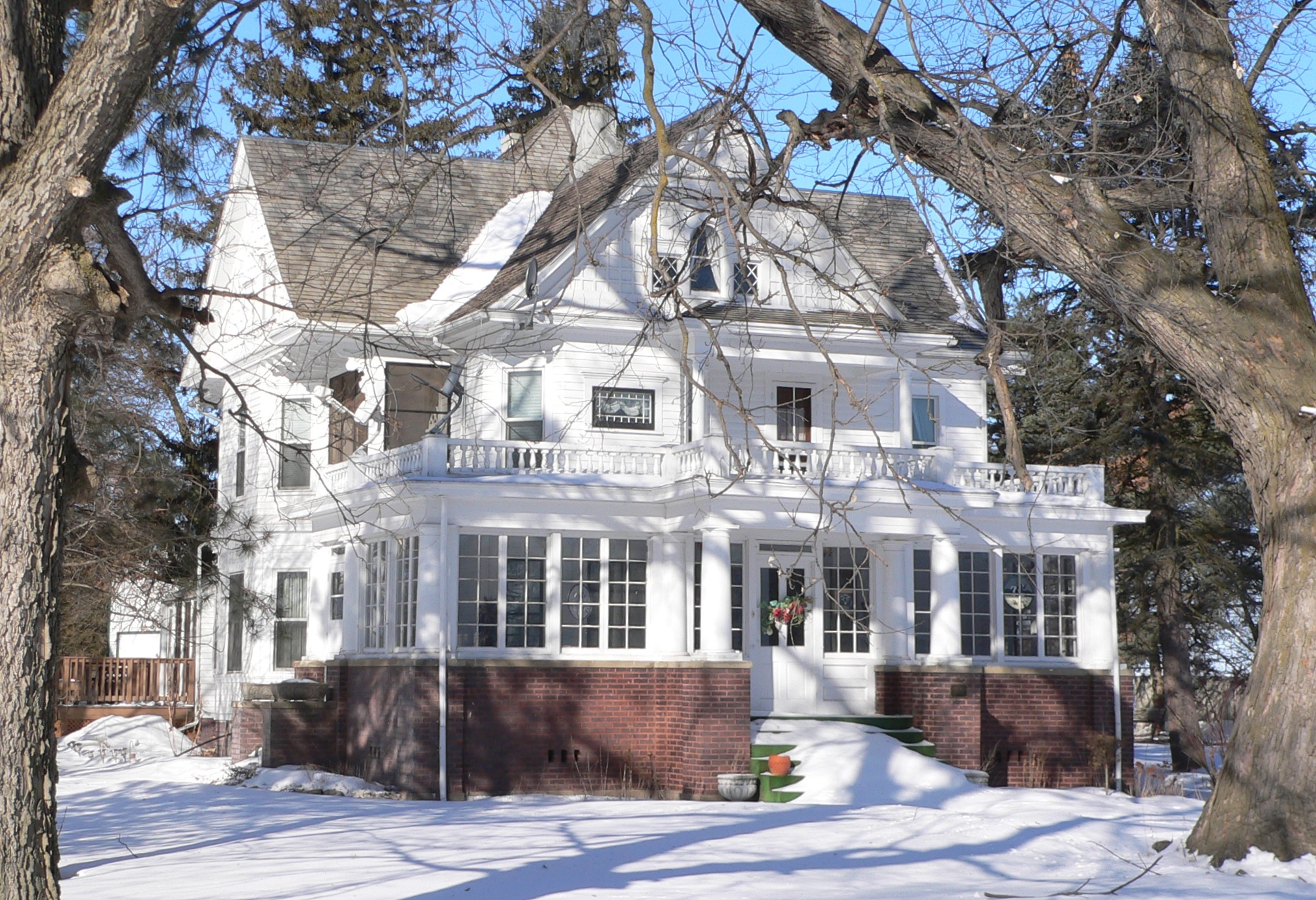 John Wesley and Grace Shafer Warrick House in Meadow Grove, Nebraska; seen from the southeast. The Queen Anne house was built in 1903. It is listed in the National Register of Historic Places.